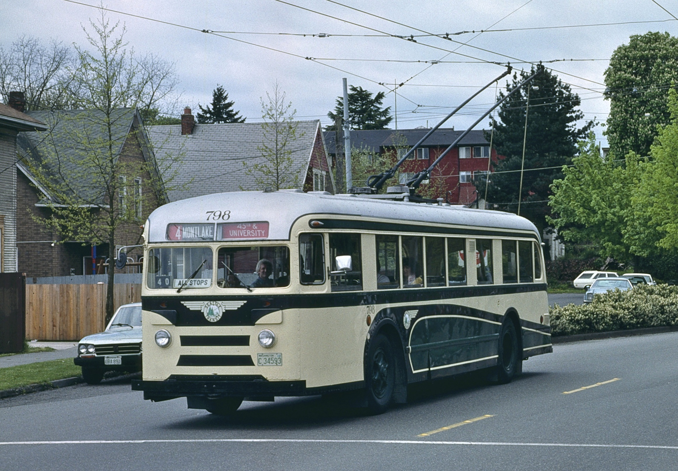 Preserved and restored 1940 Seattle trolleybus 798, a PCF-Brill (built by Pacific Car & Foundry under license from the Brill Company), carrying passengers on a special excursion on April 28, 1990, the 50th anniversary of the Seattle trolleybus system. It is pictured eastbound on East John Street (at 21st Avenue E.), which has been served by trolleybuses since 1981, with the conversion of route 43 to trolleybuses. Route 43's predecessor (before 1978) was route 4-Montlake, which used trolleybuses until 1970, so No. 798 was displaying signage for route 4, although route 4 did not actually follow East John Street but followed East Madison Street between 14th & Pike and 23rd Avenue. Trolleybus 798 has been designated a Seattle landmark by city's Landmarks Preservation Board (listed as the Brill Trolley, as "trolley" is the common local term for trolleybuses in Seattle). It wears the distinctive paint scheme that was worn by all trolleybuses of the Seattle Transit System from the trolleybus system's opening in 1940 until about 1943.